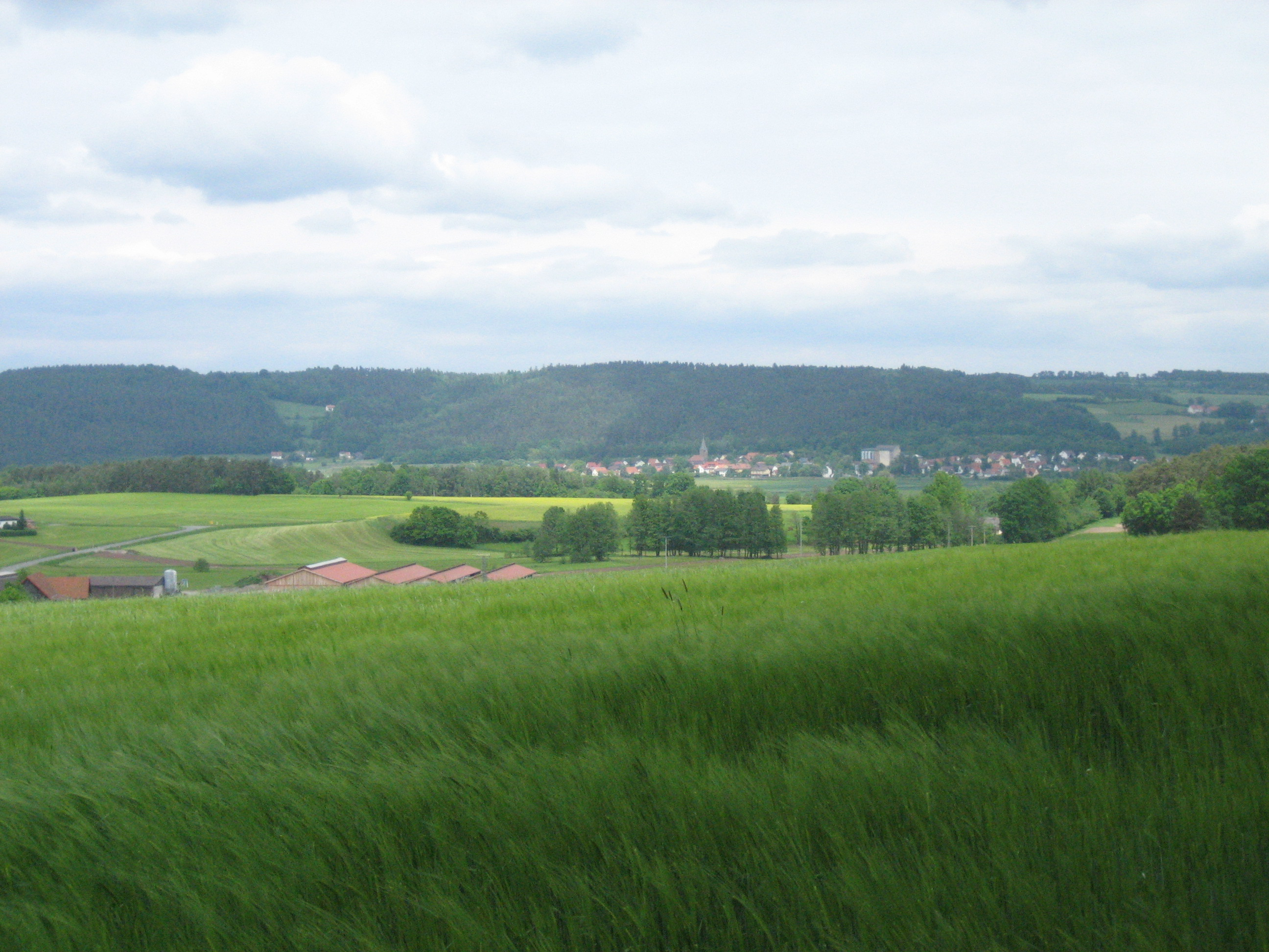 View of Harsdorf from Obergräfental